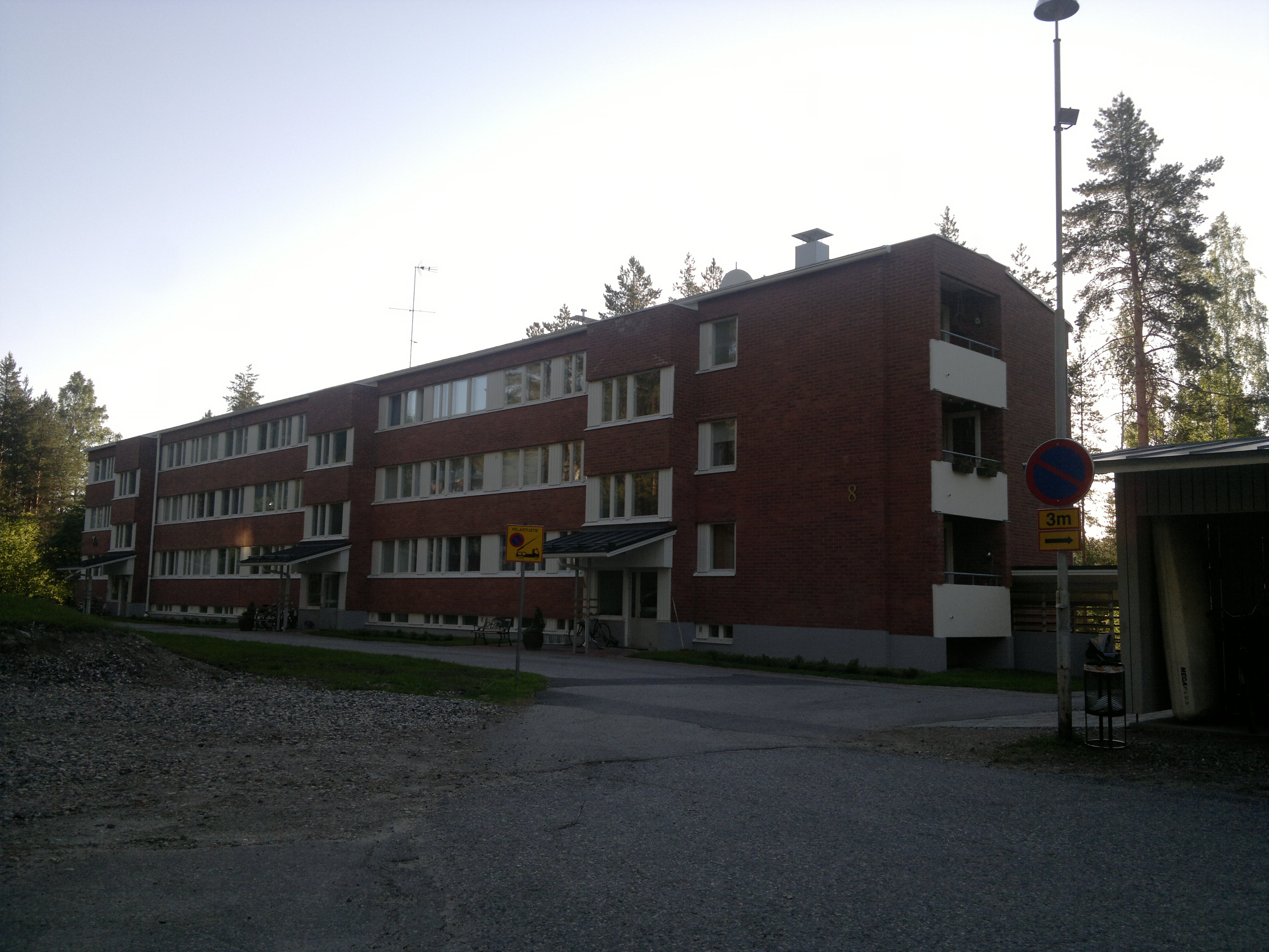 Apartment building no.8 in Hoikankangas, Kajaani.